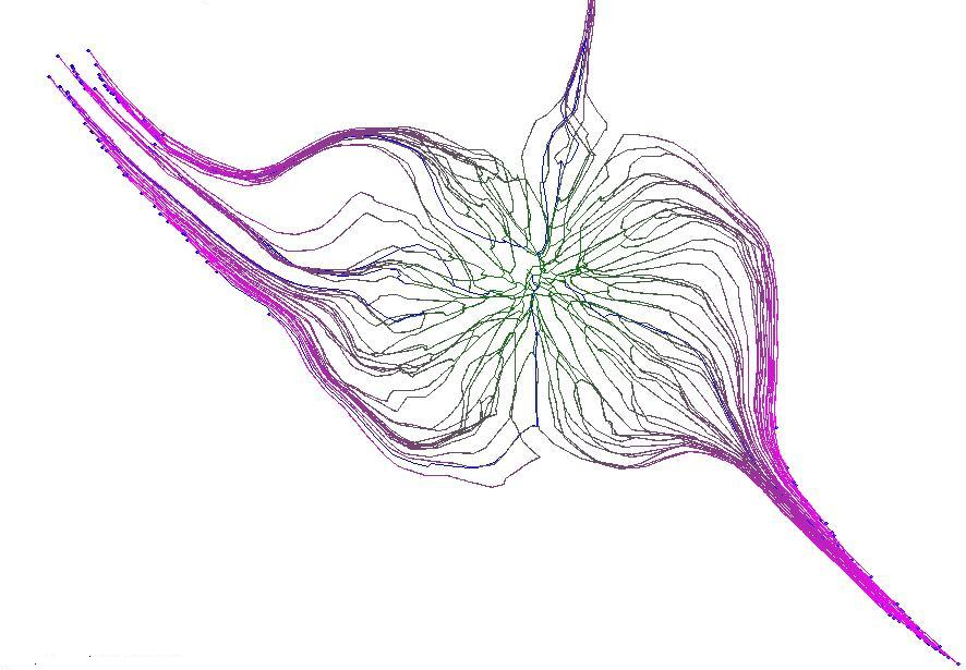 Development of the cord-like structures using the Neighbour_Sensing model of the fungal morphogenesis. Created and uploaded by Audrius Meškauskas.